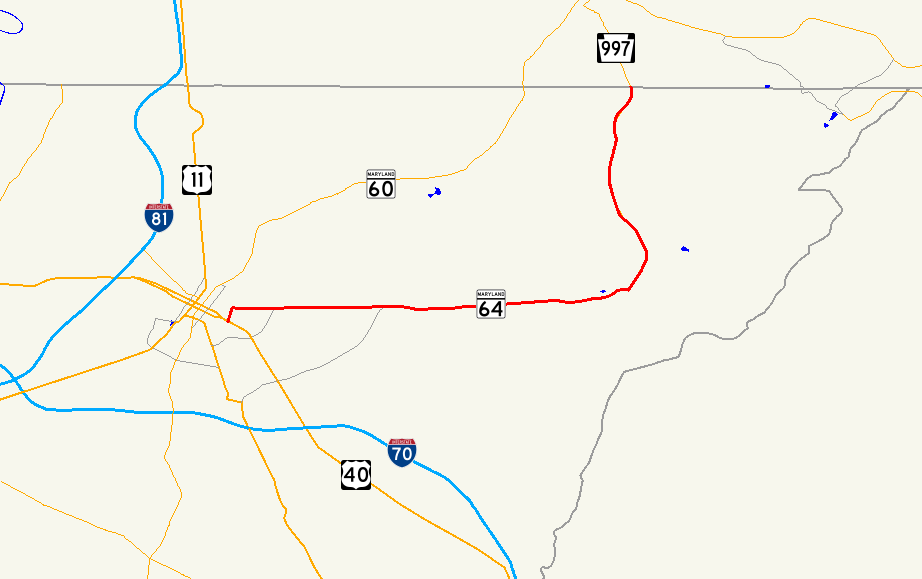 Map of Maryland Route 64